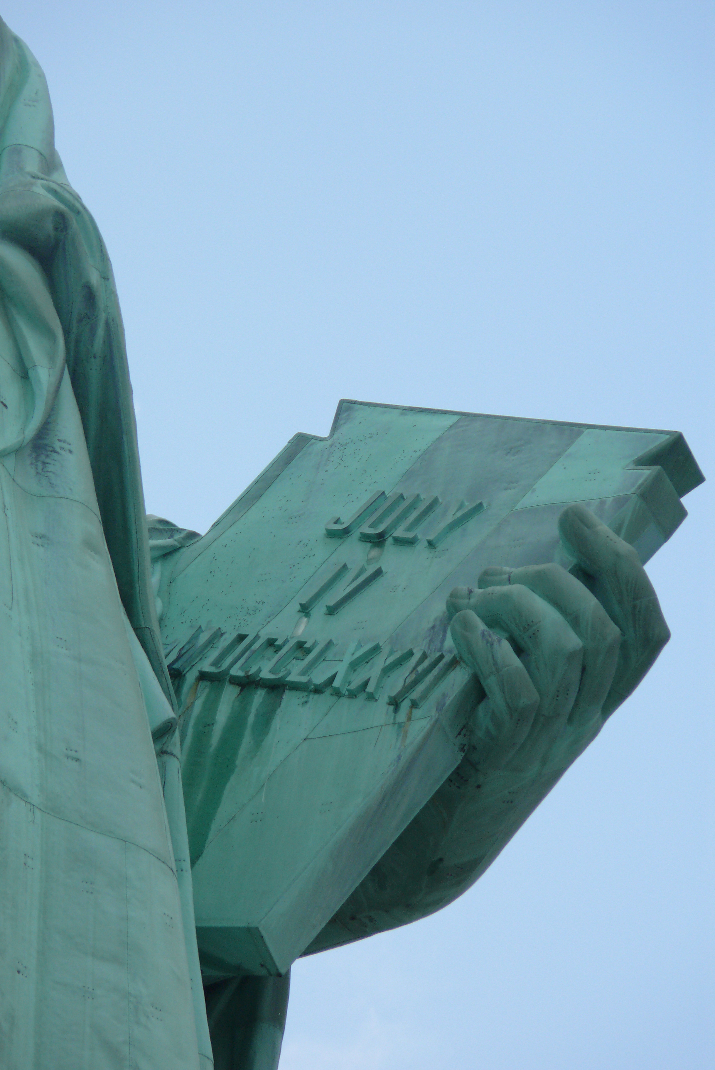 The Statue of Liberty, also known as Lady Liberty her official name is Liberty Enlightening the World. It was dedicated on October 28, 1886, and is a monument commemorating the centennial of the signing of the United States Declaration of Independence, given to the United States by the people of France to represent the friendship between the two countries established during the American Revolution.